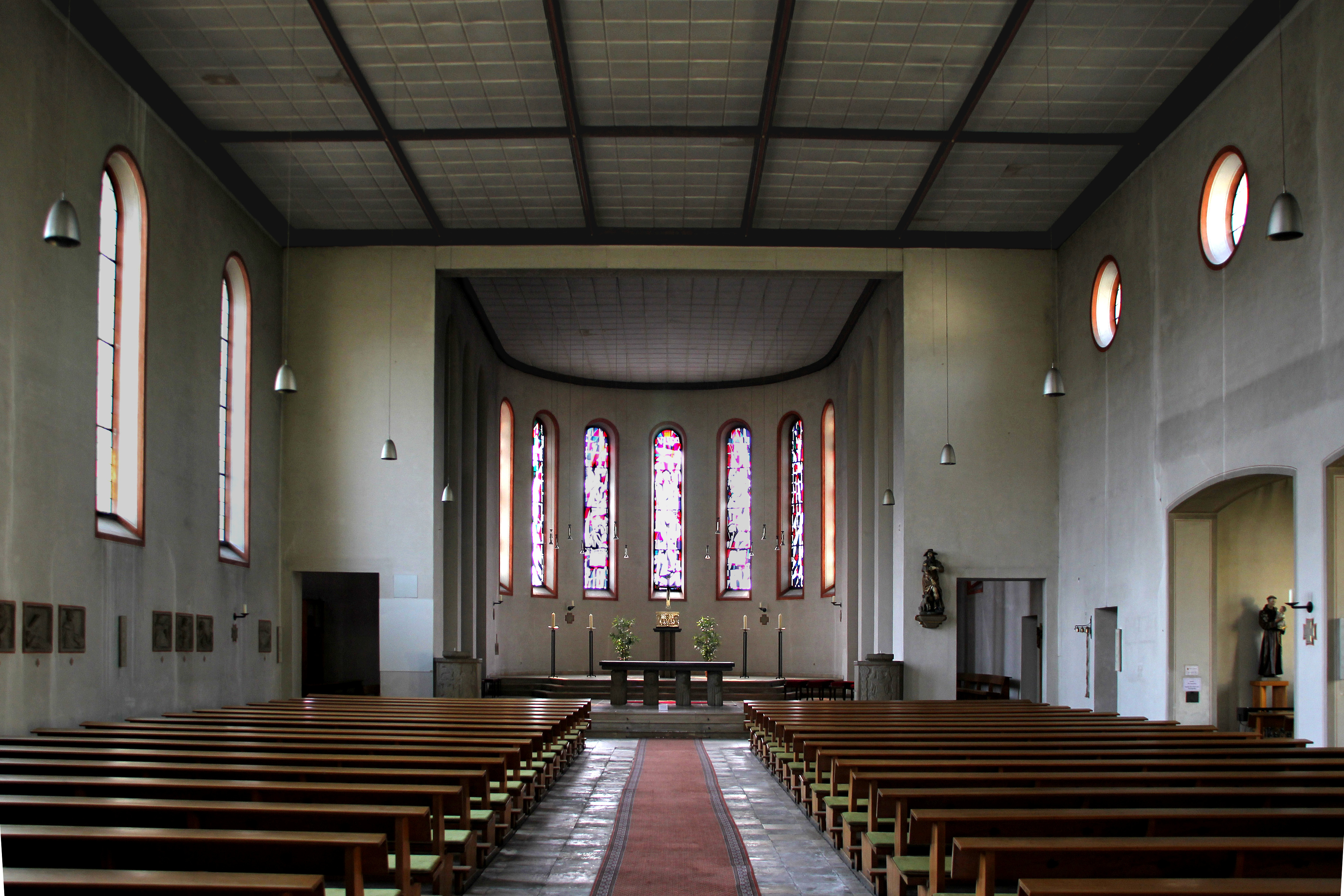 Maria Hilf church in Koblenz